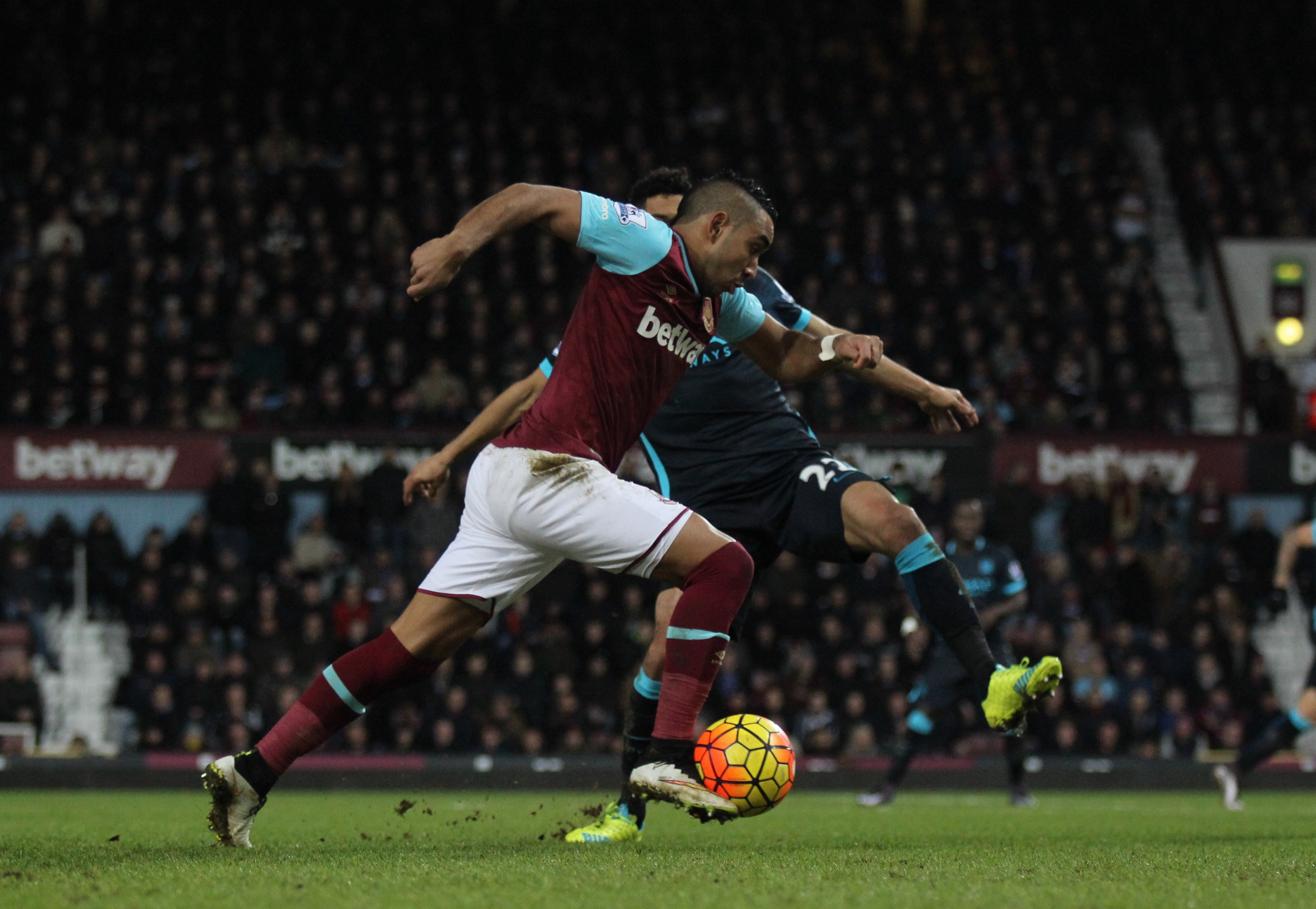 Dimitri Payet of West Ham on the ball during the game against Manchester City.